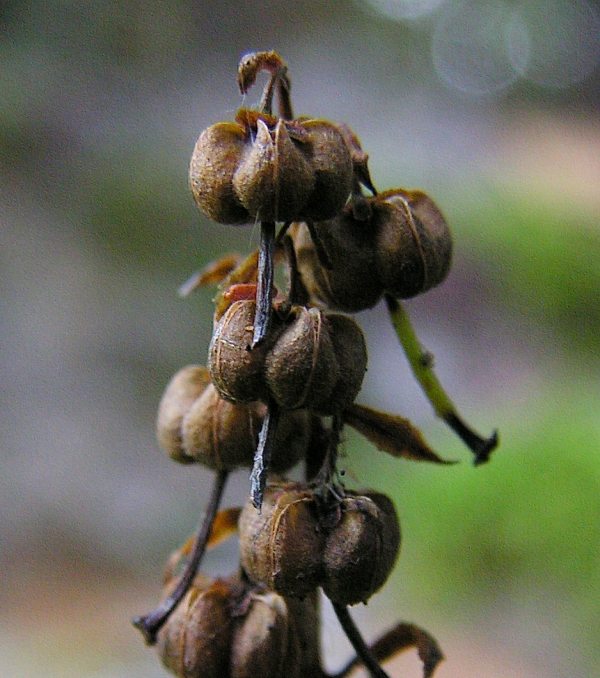 The fruits of Pyrola rotundifolia Orthilia secunda. Moscow region, Russia.